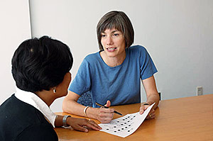 Genetic counseling session